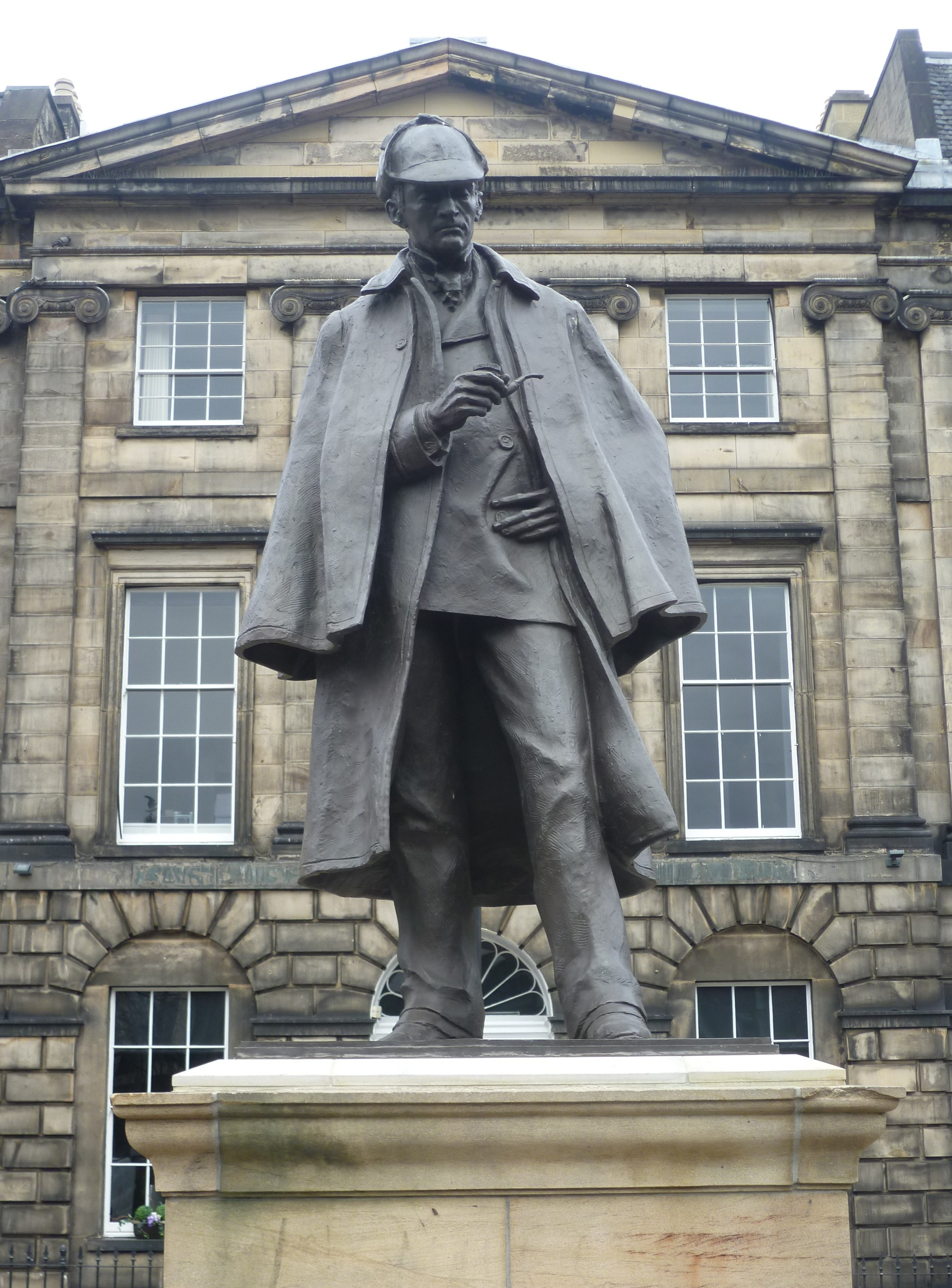 Sherlock Holmes statue in Picardy Place, Edinburgh. It stands opposite the birthplace of Sir Arthur Conan Doyle (1859-1930) which was demolished c.1970